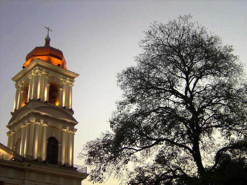 Author: jlazarte Image: The Cathedral at Sunset, Tucuman, Argentina